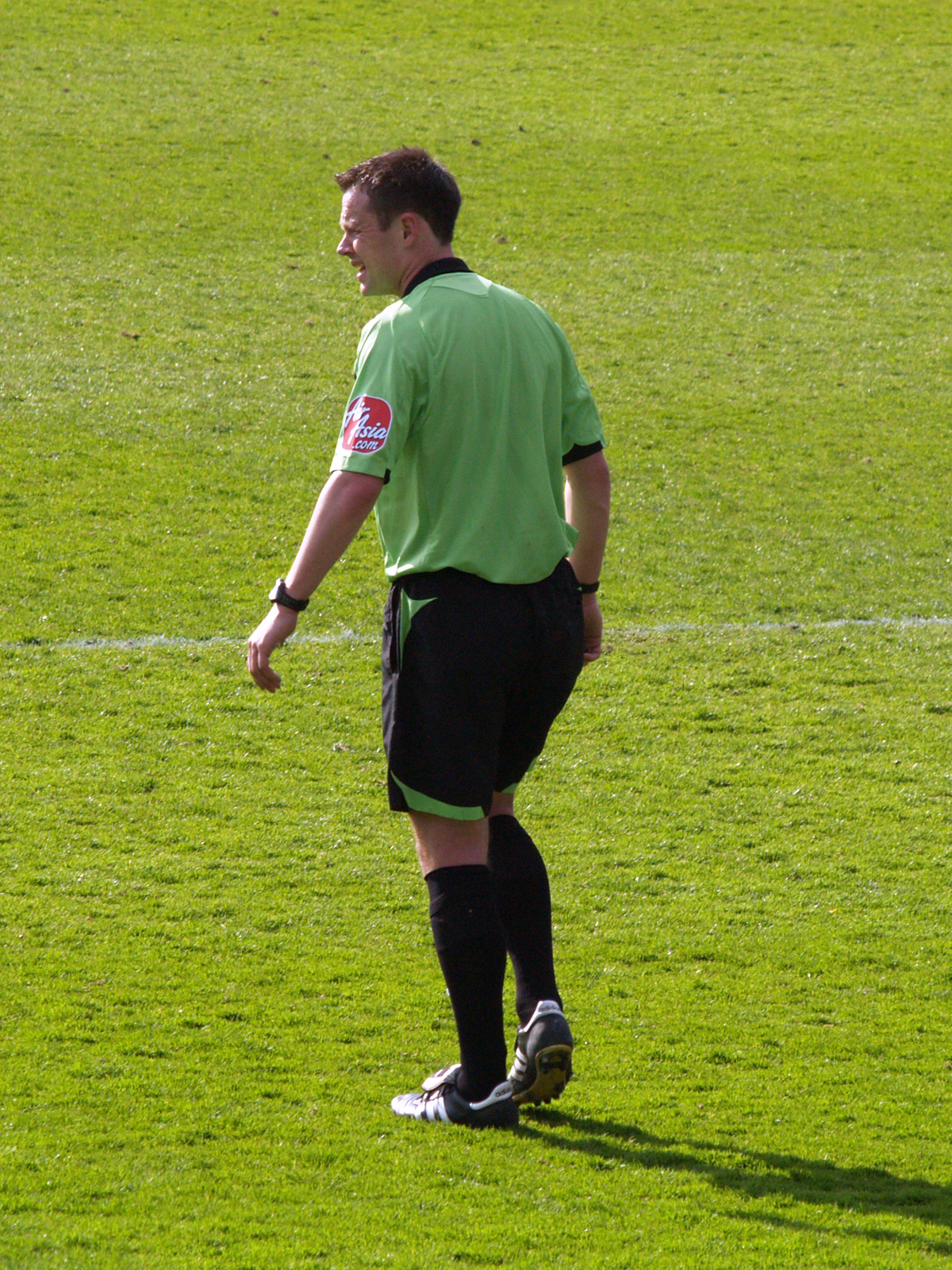 Referee Stuart Attwell during the Bury vs. Macclesfield Town game at Gigg Lane, home of Bury Football Club. Saturday 18th April 2009